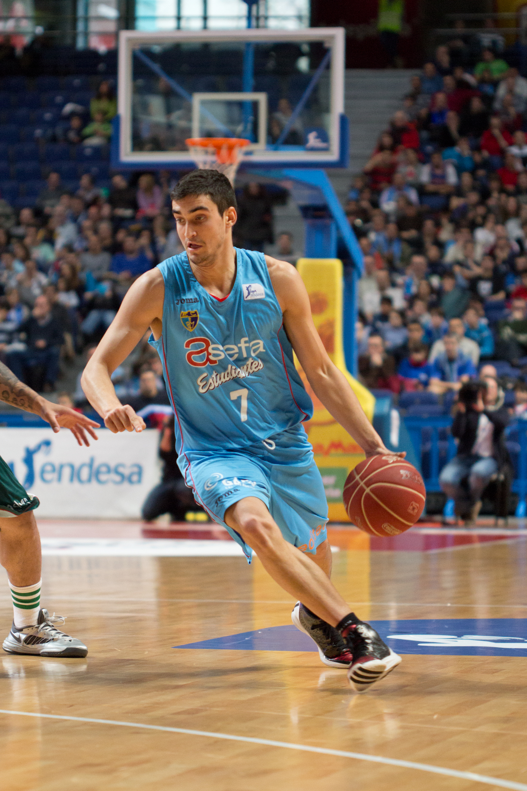 Jaime Fernández. Game Estudiantes vs Unicaja Málaga.